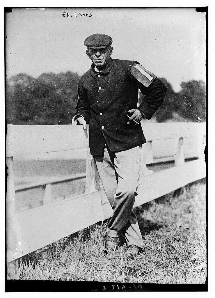 Ed Geers (LOC) Bain News Service,, publisher. Ed Geers circa 1912 [between ca. 1910 and ca. 1915] 1 negative : glass ; 5 x 7 in. or smaller. Notes: Title from unverified data provided by the Bain News Service on the negatives or caption cards. Forms part of: George Grantham Bain Collection (Library of Congress). Format: Glass negatives. Repository: Library of Congress, Prints and Photographs Division, Washington, D.C. 20540 USA, General information about the Bain Collection is available at Persistent URL: Call Number: LC-B2- 2219-14